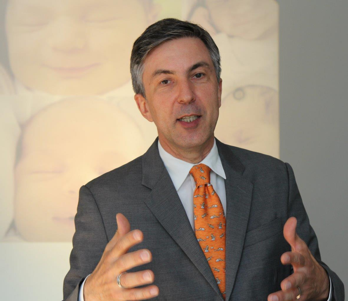 Professor Gunter H. Moll